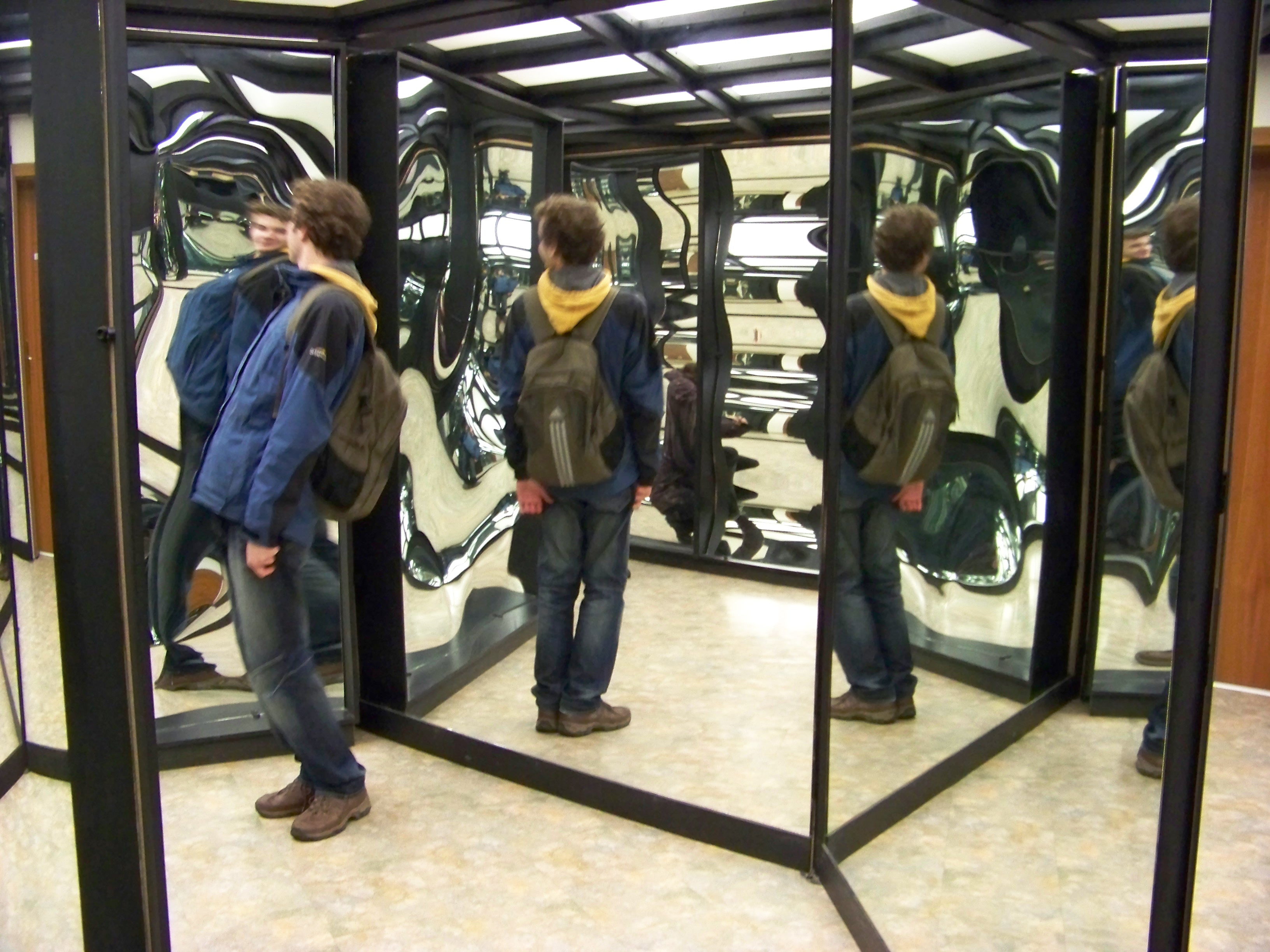 Ústí nad Labem, the Czech Republic. Větruše hill, a mirror labyrinth.